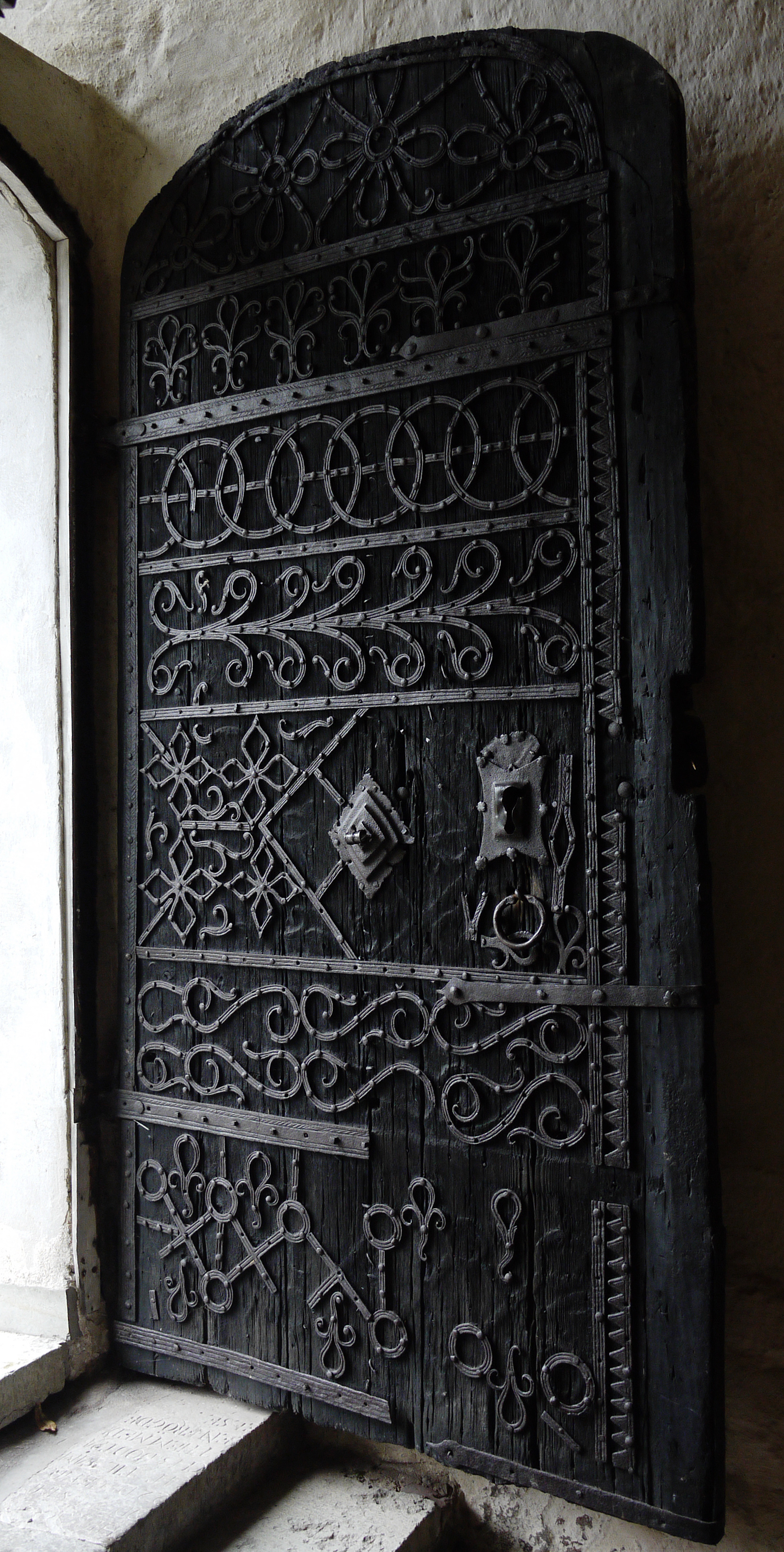 Bjälbo church, Mjölby kommun, Diocese of Linköping, Sweden. Church door.